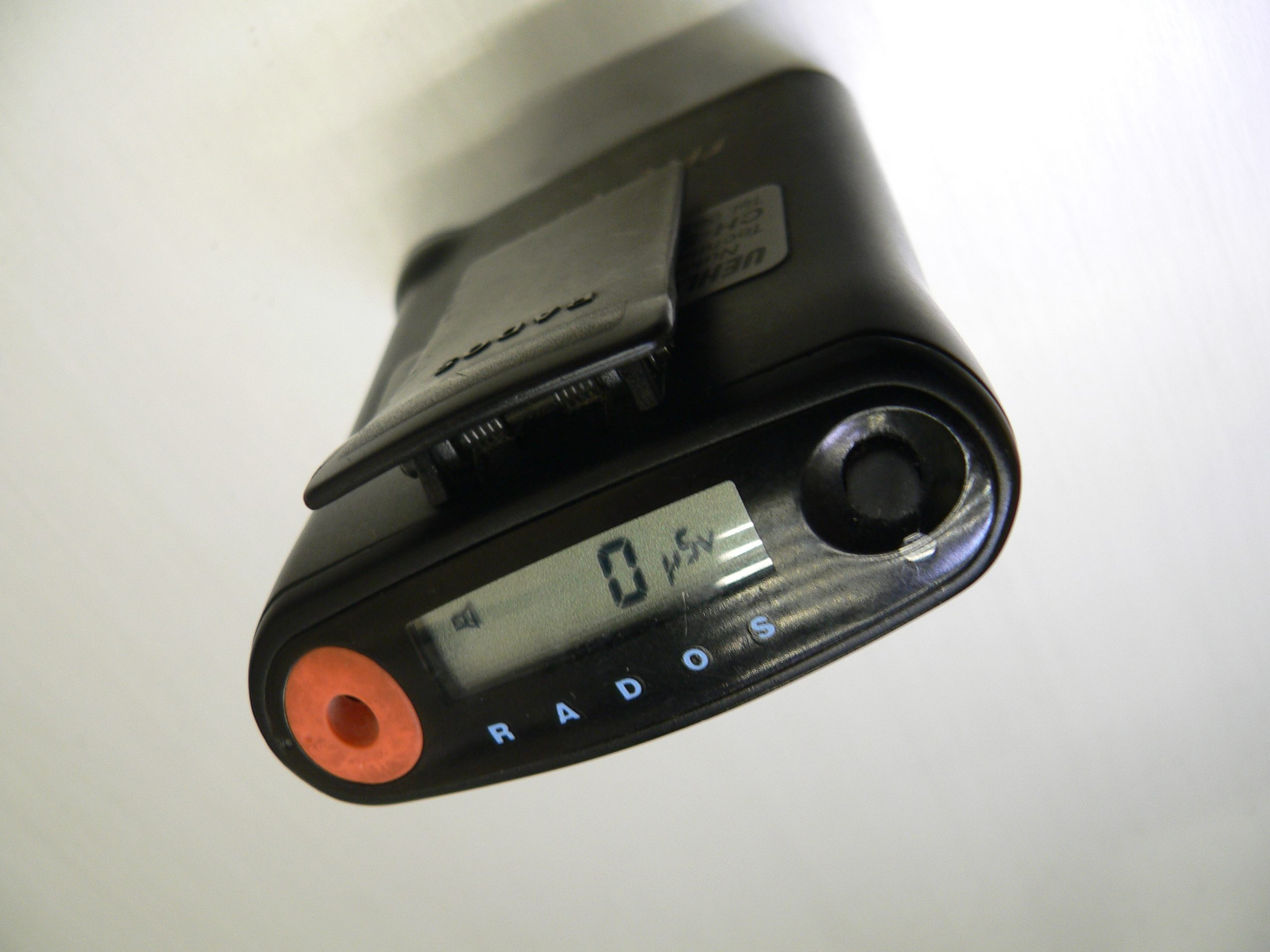 Nuclear installations at the EPFL CROCUS Reactor; CAROUSEL experiments; miscalenous experiments and manipulations; detectors and instruments. Dosimeter (the one I was wearing. It stayed at zero micro-Sivert for the whole hour) Wholehearted thanks to René Frueh, chief of operations of CROCUS, for devoting a whole hours to open doors of this universe and explain technical details.